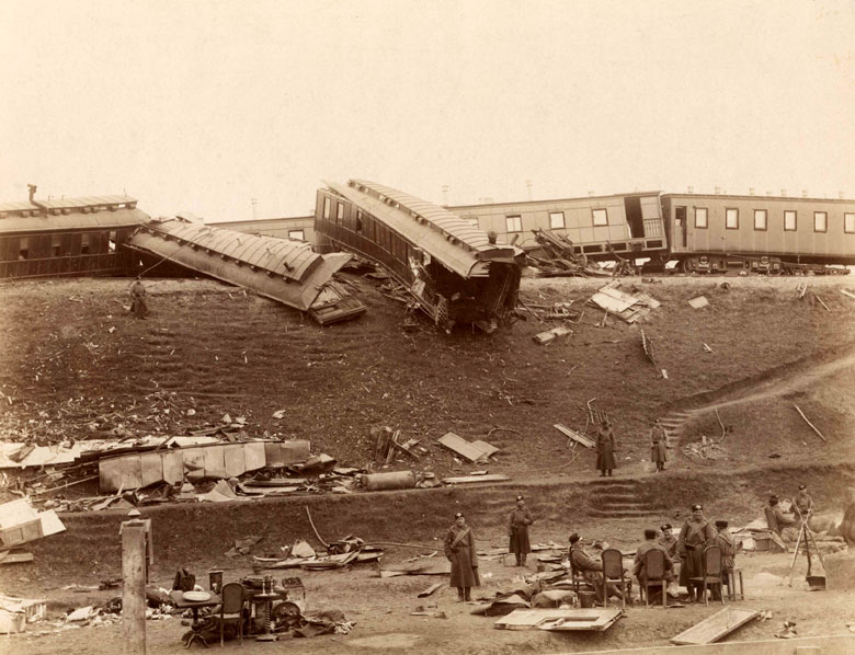 Russian imperial train accident at 17 october 1888. Crushed dining room and grand-ducal car.